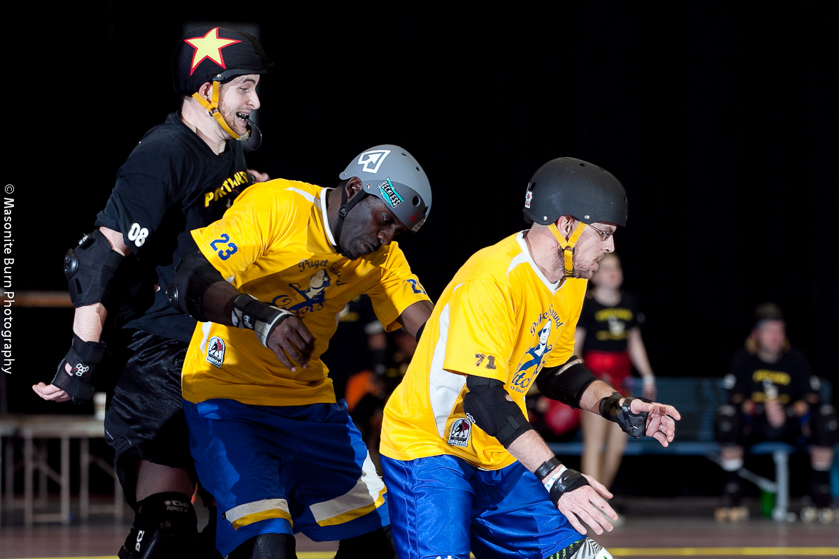 Quadzilla L.K. (center), playing for Puget Sound Outcast Derby, uses a can opener move on Portland Men's Roller Derby's jammer at a bout in Eugene, on 12 February 2012.